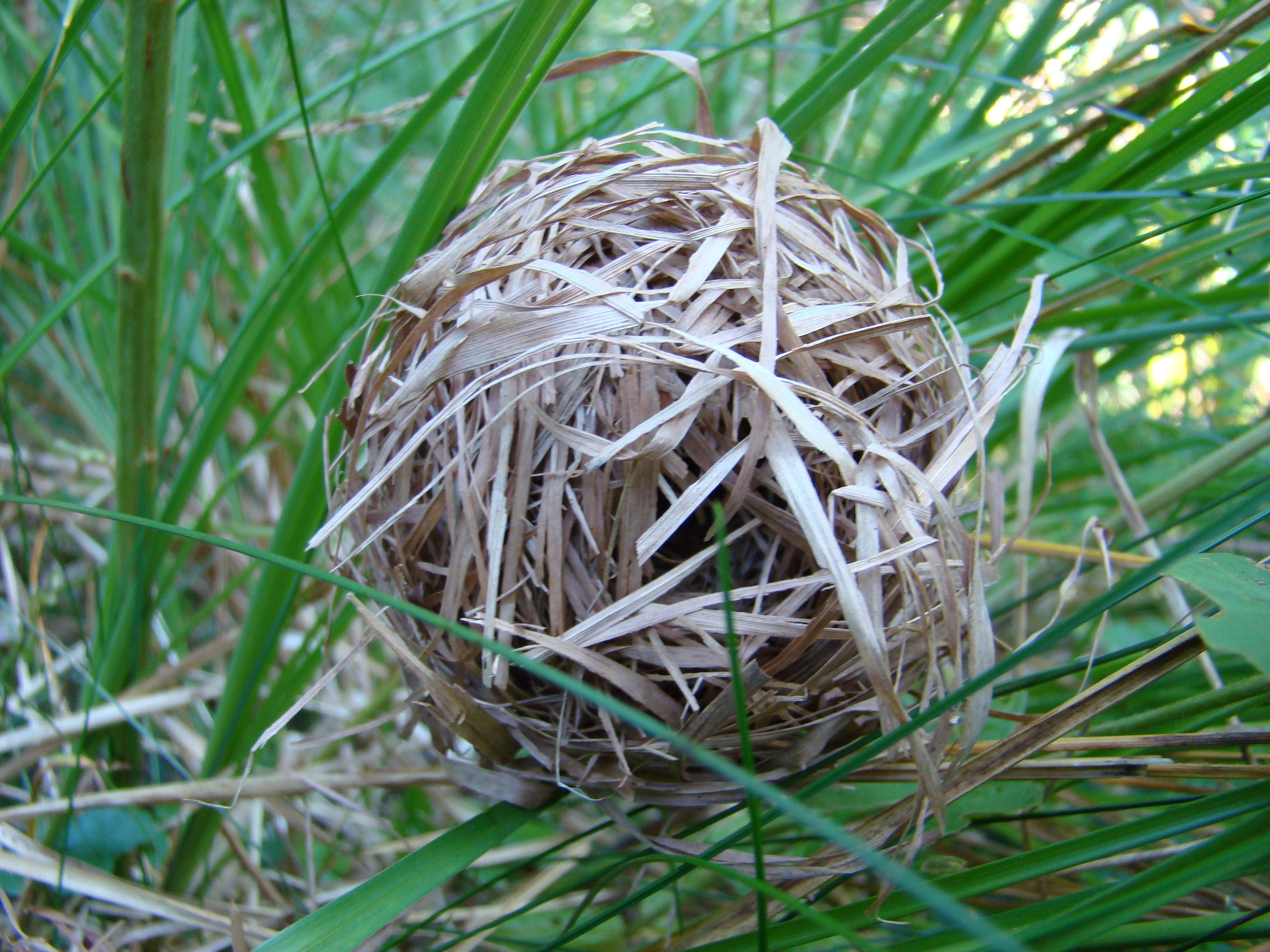 Harvest Mouse Nest near Hermannsburg, Lüneburg Heath, Lower Saxony, Germany